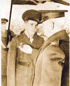 An official photo of the ceremony held l at the Philadelphia Navy Yard on February 18, 1943, in which Sergeant Albert Andrew Schmid received the Navy Cross